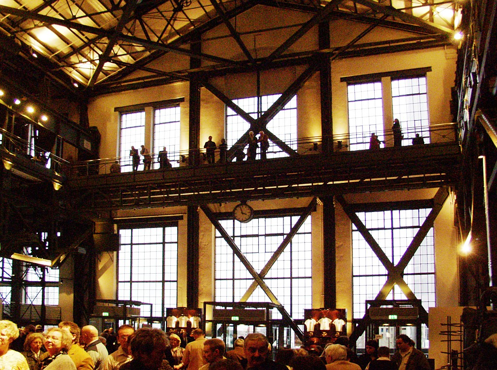 Colosseum Theater, Inside, Essen, Germany